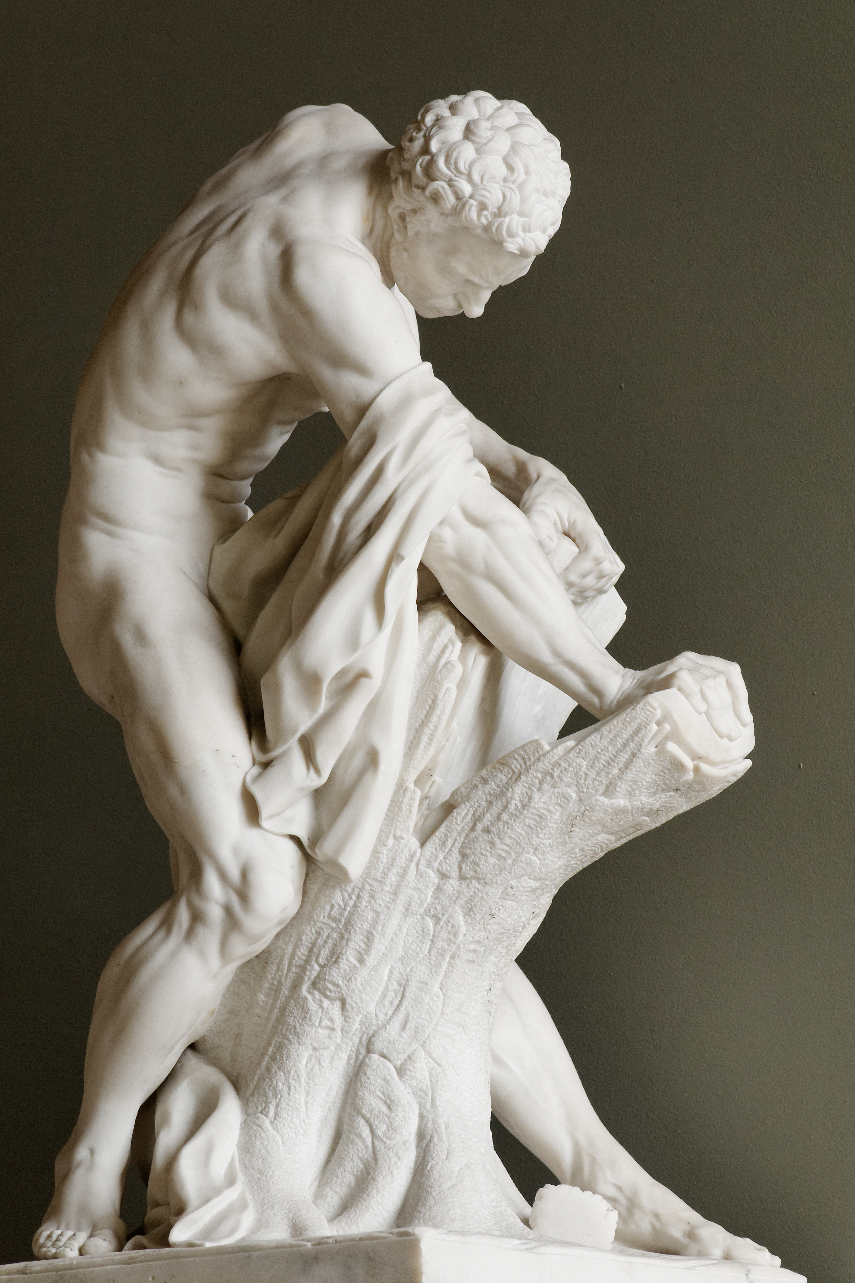 Milo of Croton. Marble, reception piece for the French Royal Academy, 1768.